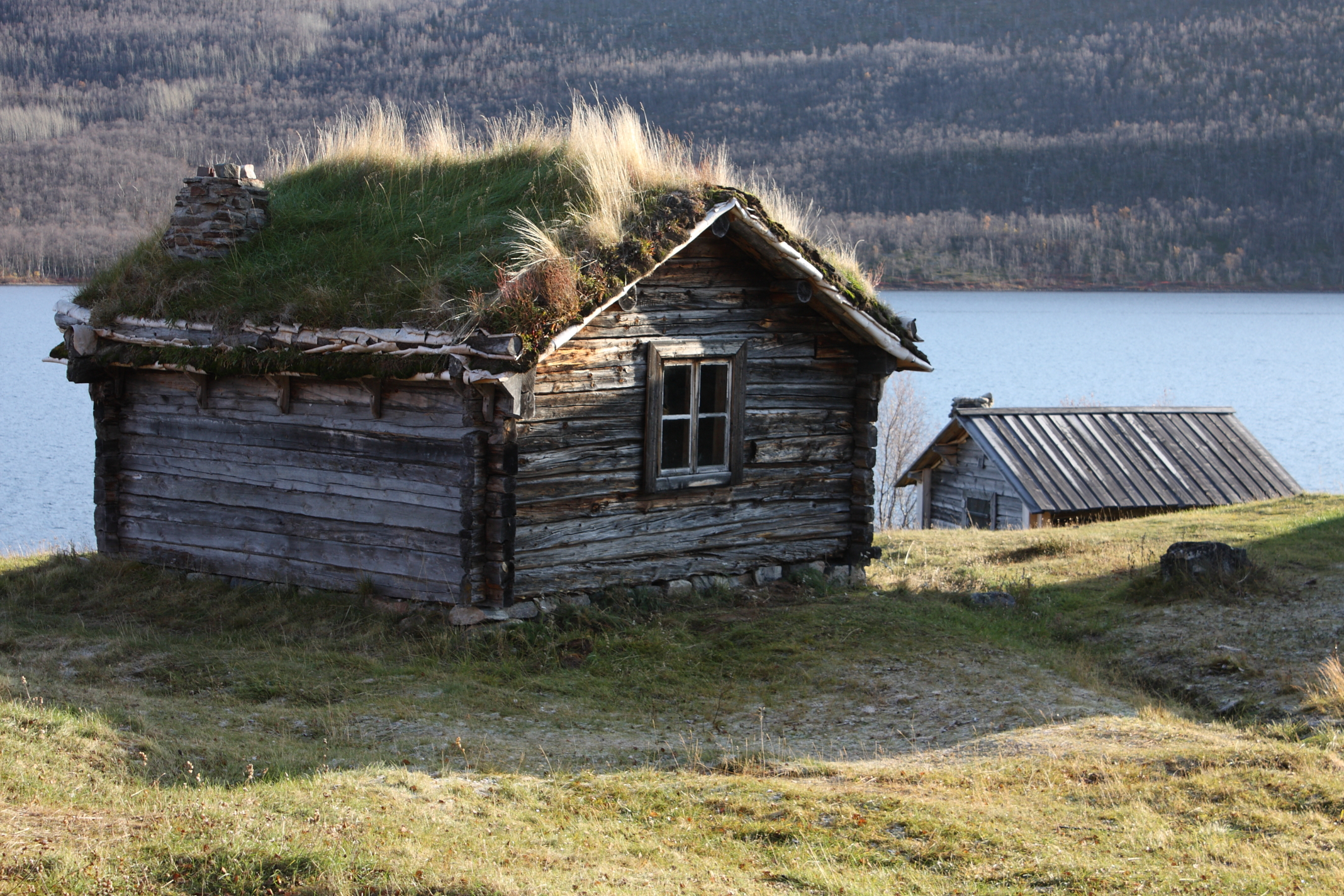 A wooden cabin that was used by long-distance church-goers in Utsjoki, Finland. Located between Utsjoki church and Mantojärvi lake.